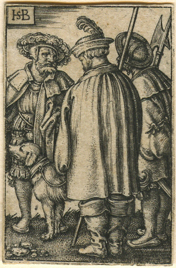 Beham, (Hans) Sebald (1500-1550): Three Soldiers and a Dog. Engraving, ca 1540. B.196, P.199. 1 7/8 X 1 1/4 inches, i/ii, before the dots to the right near the clouds. A very fine early impression, printed strongly with all the details clear. Very good condition, trimmed on the plate mark but outside the borderline, remains of prior hinging verso, tiny hairline in image (not prominent). First state of two.